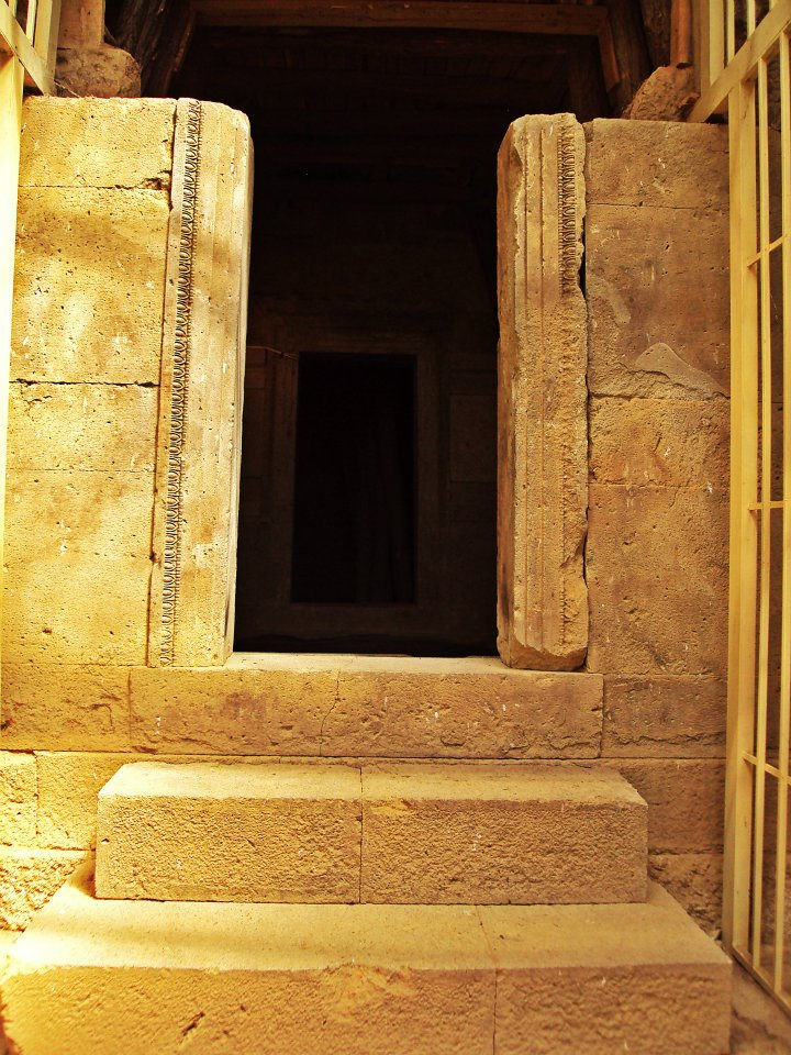 Thracian_temple_entrance_Starosel_BG